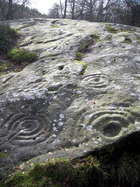 The cup and ring-marked outcrop at Roughting Linn An incredible example of Northumberland's prehistoric rock art with numerous motifs carved on all surfaces of a large domed outcrop Later quarrying of the outcrop at the front of the photograph has cut through one of the many-ringed cups and is just one example repeated over the county of how much that may have been destroyed.